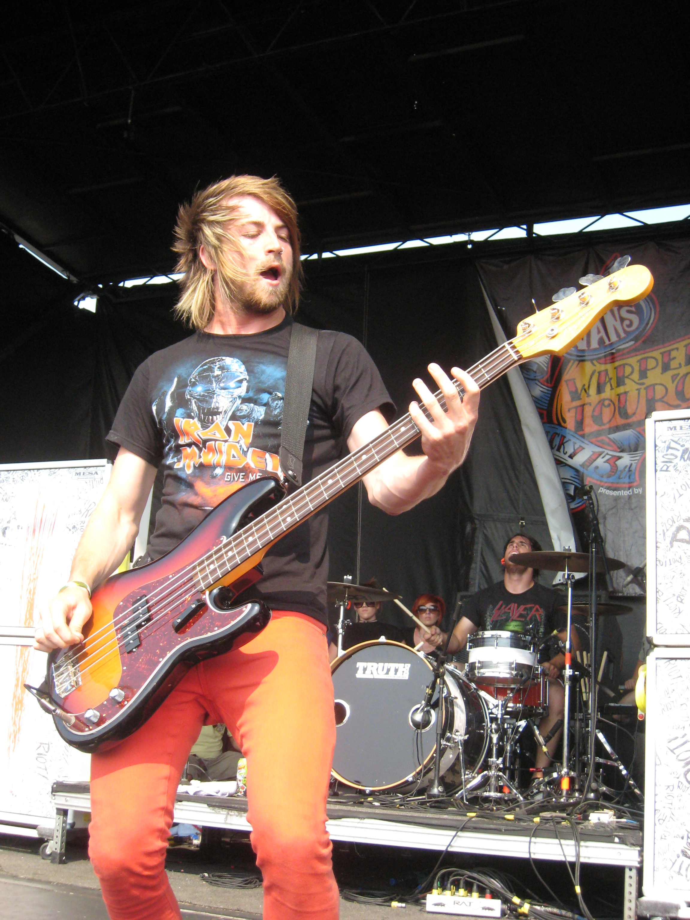 Jeremy Davis, bass guitar player for Paramore, playing at the Van's Warped Tour, 2007 in Tweeter Center at the Waterfront in Camden, NJ.